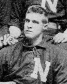 Art Herman, a baseball player shown with the minor league Nashville Seraphs in 1895